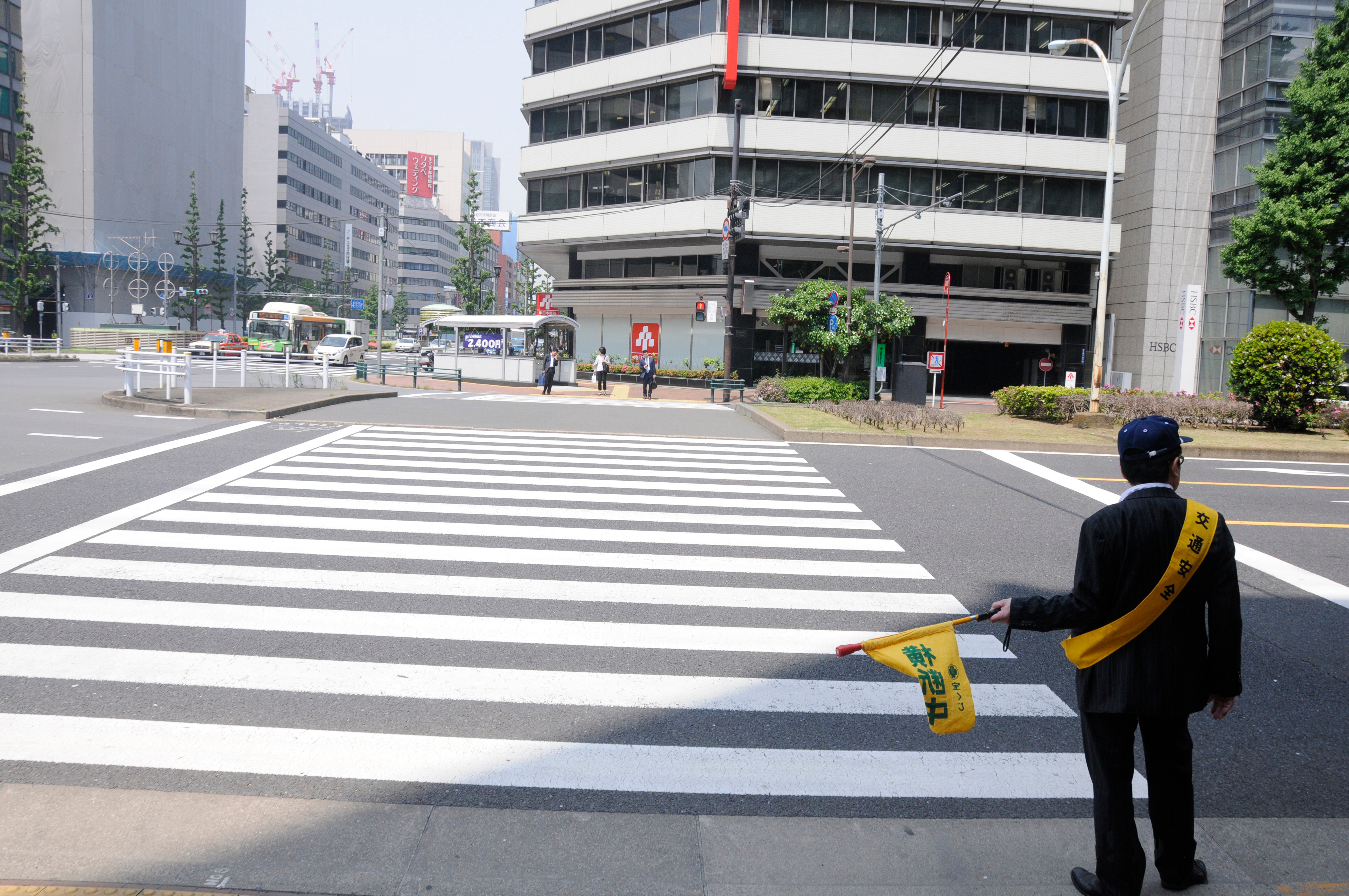 I hurt my leg so I did not want to go far ! , so decided to stay in my own area to take photos ! :D